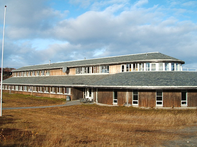 This is the Sámi Parliament building in Guovdageaidnu, it contains the departments Oahpahusossodat (school material) and Giellaossodat (language).